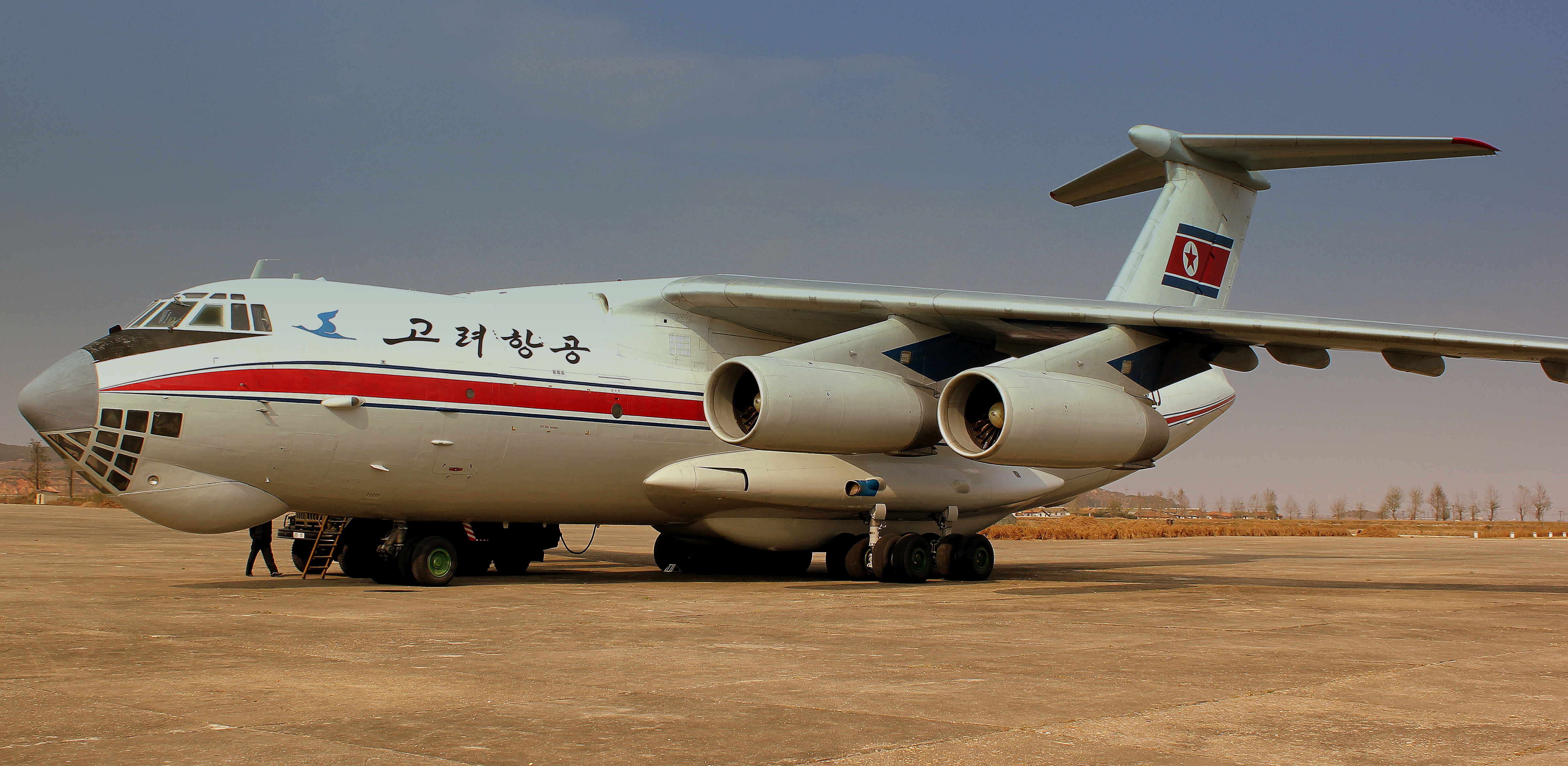 P912 IL76 AIR KORYO AT HAMHUNG SONOK AIRFIELD DPRK NORTH KOREA OCT 2012